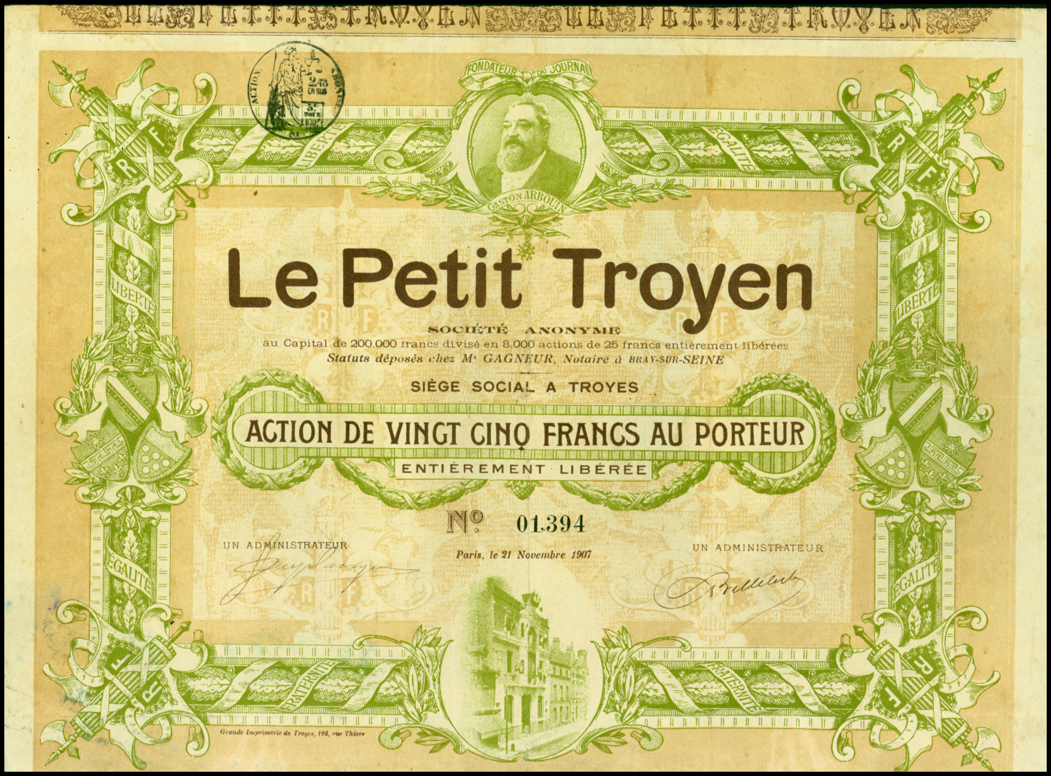 Share of Le Petit Troyen S.A., issued 21. November 1907